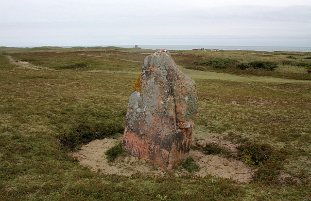 Little Menhir, Les Blanches Banques. A large pink granite block, 1.7m high, which was completely buried prior to excavation in 1921 when it was found to be supported by other stones at its base. Link Looking out to sea towards La Rocco Tower.